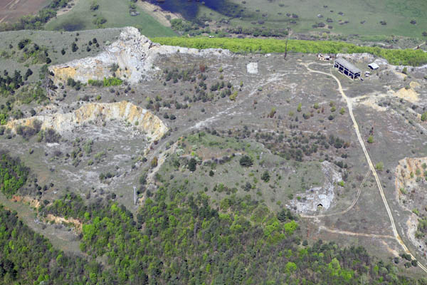 Esztramos-hegy, mountain, Hungary, Aggtelek National Park, aerial photography